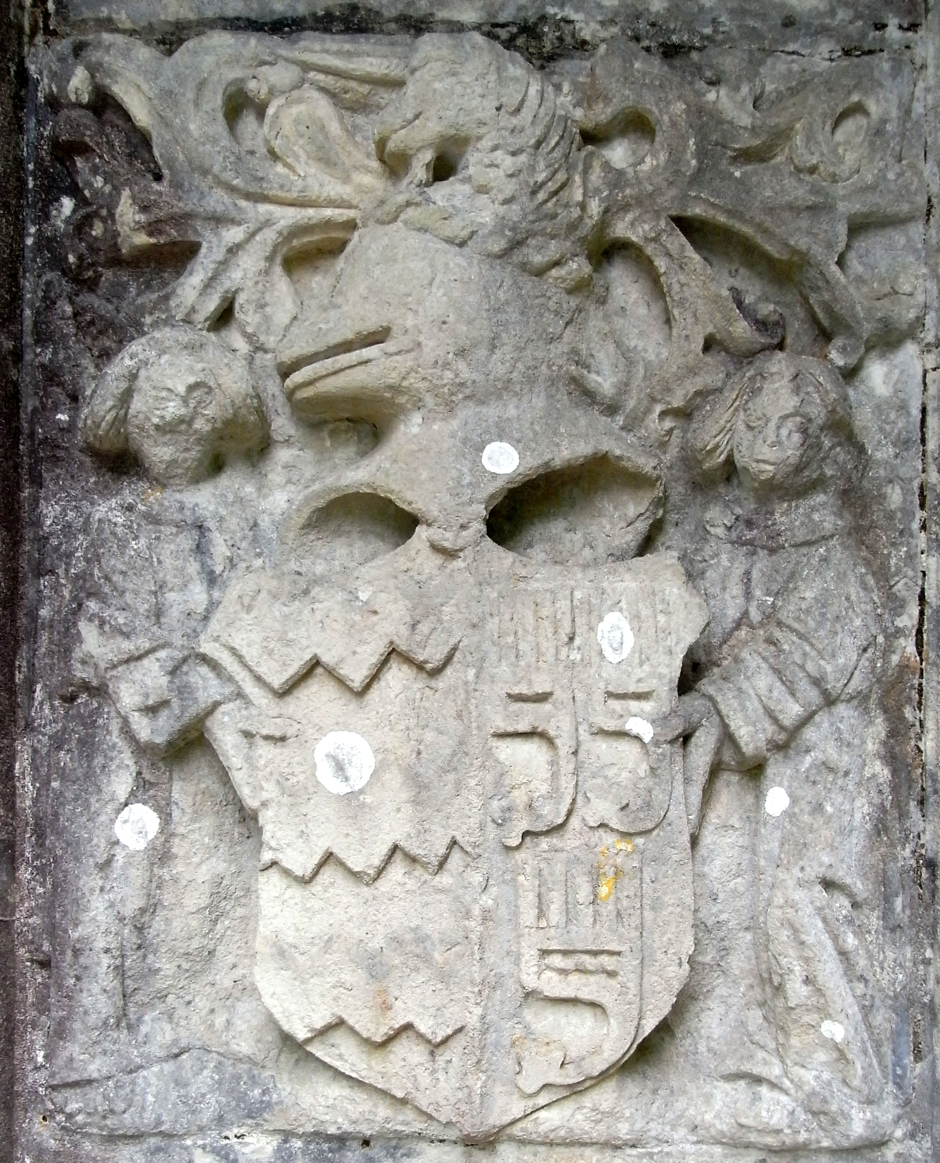 Sculptural relief showing escutcheon of arms Barry wavy of six or and gules (Sir John IV Basset (d.1528) of Umberleigh) impaling Gules, three clarions or (the arms of his wife, Honor Grenville (d.1566)). Above id the crest of Basset A unicorn's head argent. The supporters are human figures representing dexter: Sir John Basset, and sinister: Honor Grenville. Detail from the Umberleigh House Porch, formerly part of the manor house of Umberleigh, North Devon, moved by a member of the Basset family to the wall of the subtropical Gardens, Watermouth Castle, North Devon. (See Pevsner, Nikolaus & Cherry, Bridget, The Buildings of England: Devon, London, 2004, pp.890-1)